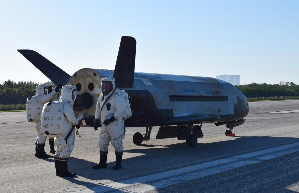 The Air Force's X-37B Orbital Test Vehicle mission 4 landed at NASA 's Kennedy Space Center Shuttle Landing Facility May 7, 2017. Managed by the Air Force Rapid Capabilities Office, the X-37B program is the newest and most advanced re-entry spacecraft that performs risk reduction, experimentation and concept of operations development for reusable space vehicle technologies. The vehicle is uncrewed; the people on the runway are ground support.